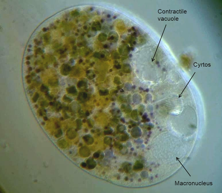 A picture of the ciliate Nassula, with macronucleus,contractile vacuole and cyrtos (cytopharyngeal basket) identified.